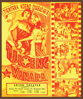 This is the film poster for the 1941 film Tjioeng Wanara.